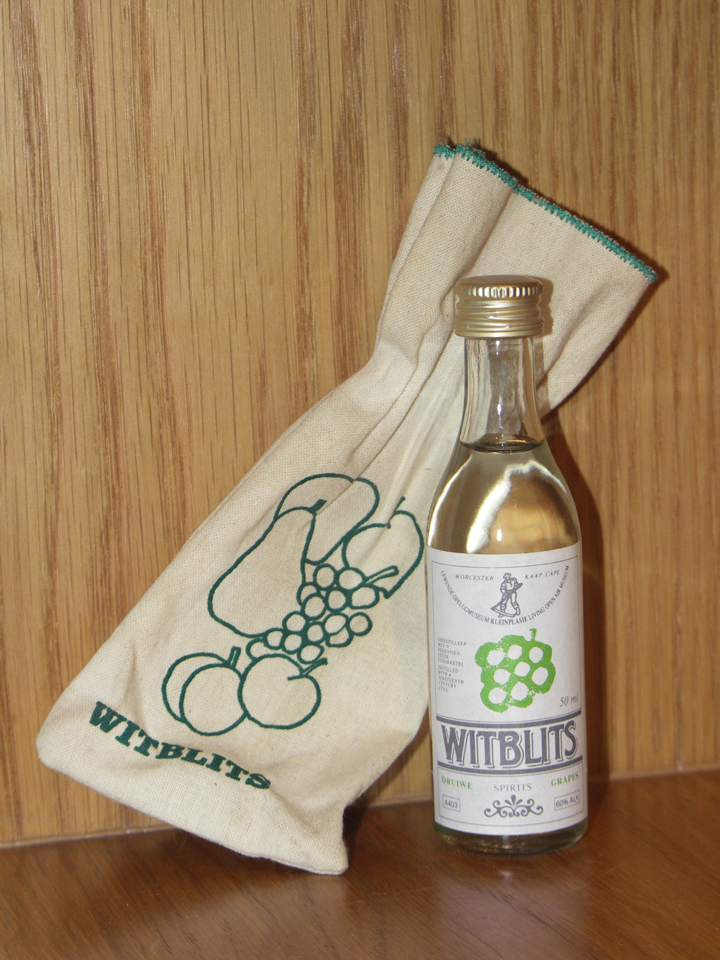 A small bottle of South African Witblits, a type of moonshine.